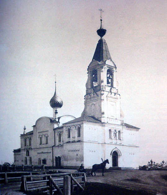 Tropino Church of St. Nicholas (1660, 1722, 1860s)